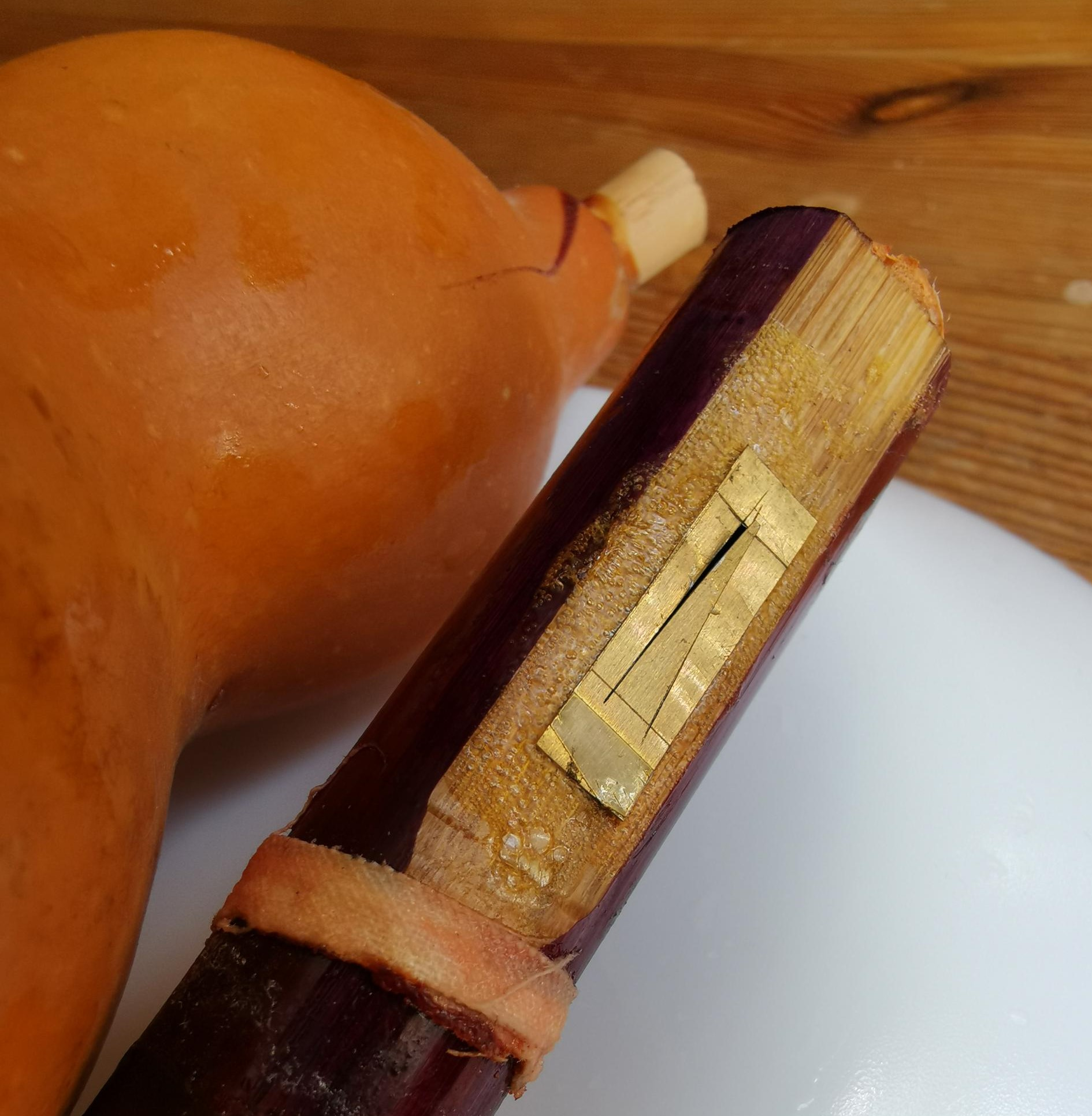 The reed of a low-grade Chinese hulusi (to the left).